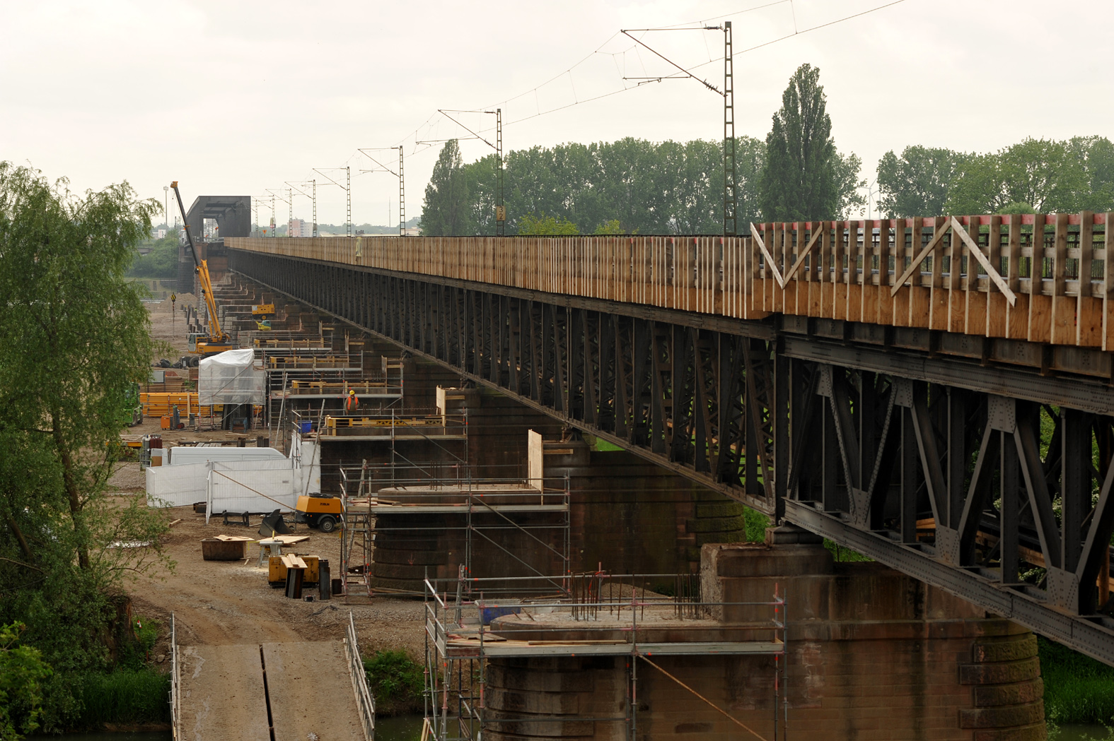 Worms railway bridge over the Rhine river between Worms and Hofheim; Rhineland-Palatinate and Hesse, Germany. The southern track over the Maulbeeraue is dismantled for reconstruction.